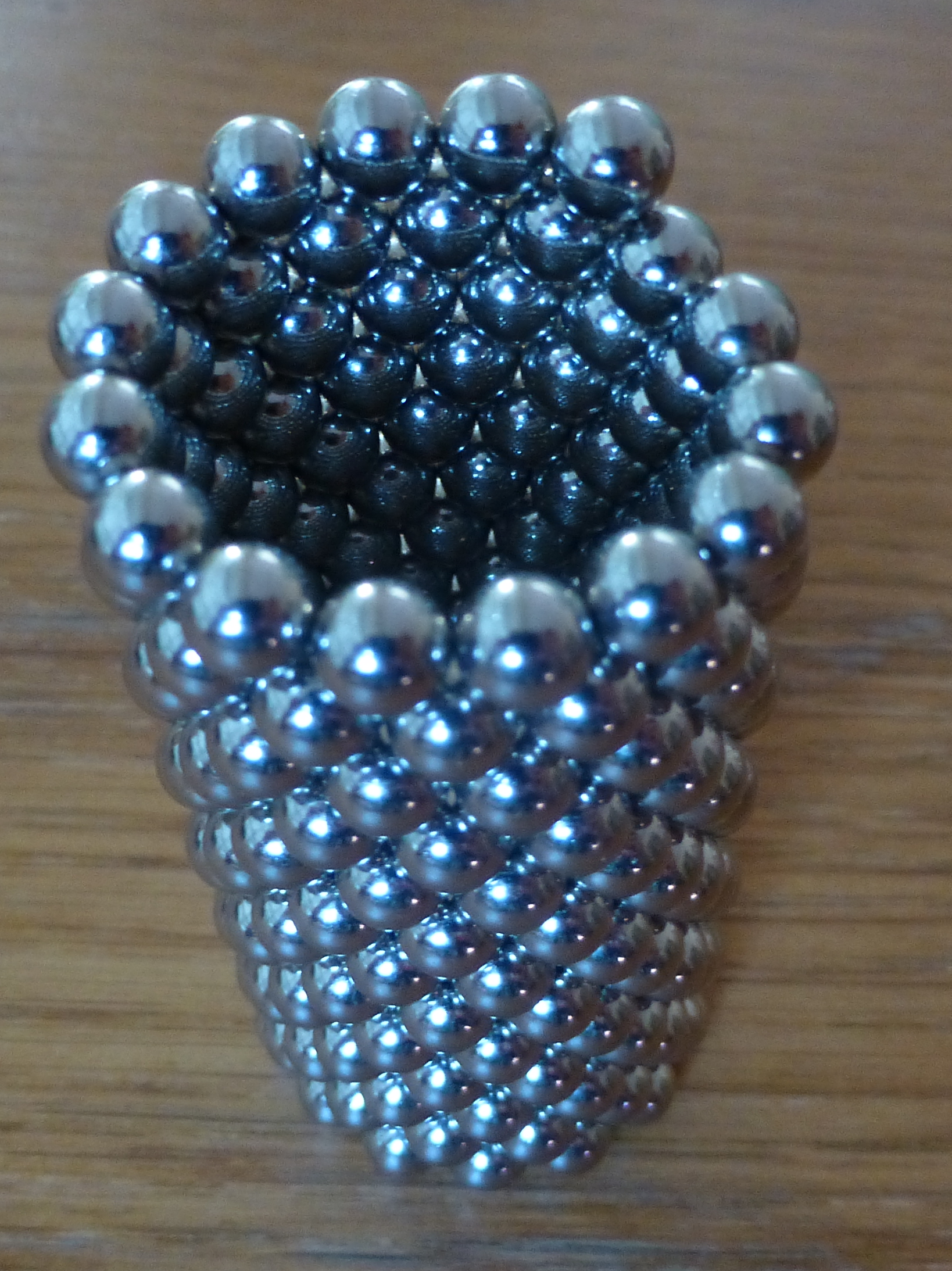 Neodymium magnets